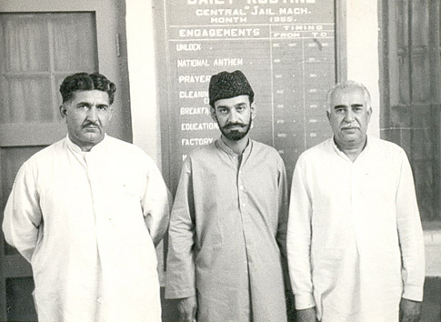 Ghaus Bakhsh Bizenjo, Ataullah Mengal and Gul Khan Nasir standing together